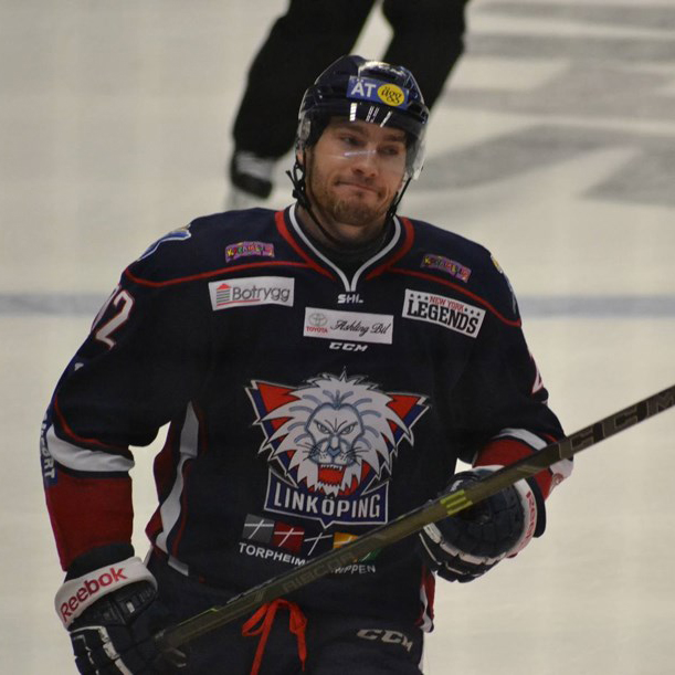 Mattias Sjögren of Linköpings HC during a SHL game.